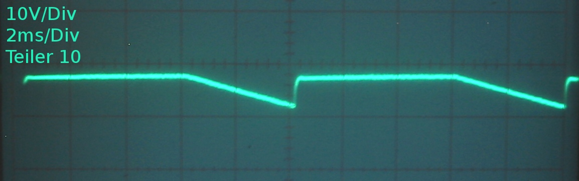 The voltage ripple on the reservoir capacitor of a compact fluorescent lamp when the input voltage has a trapezoid wave-form.